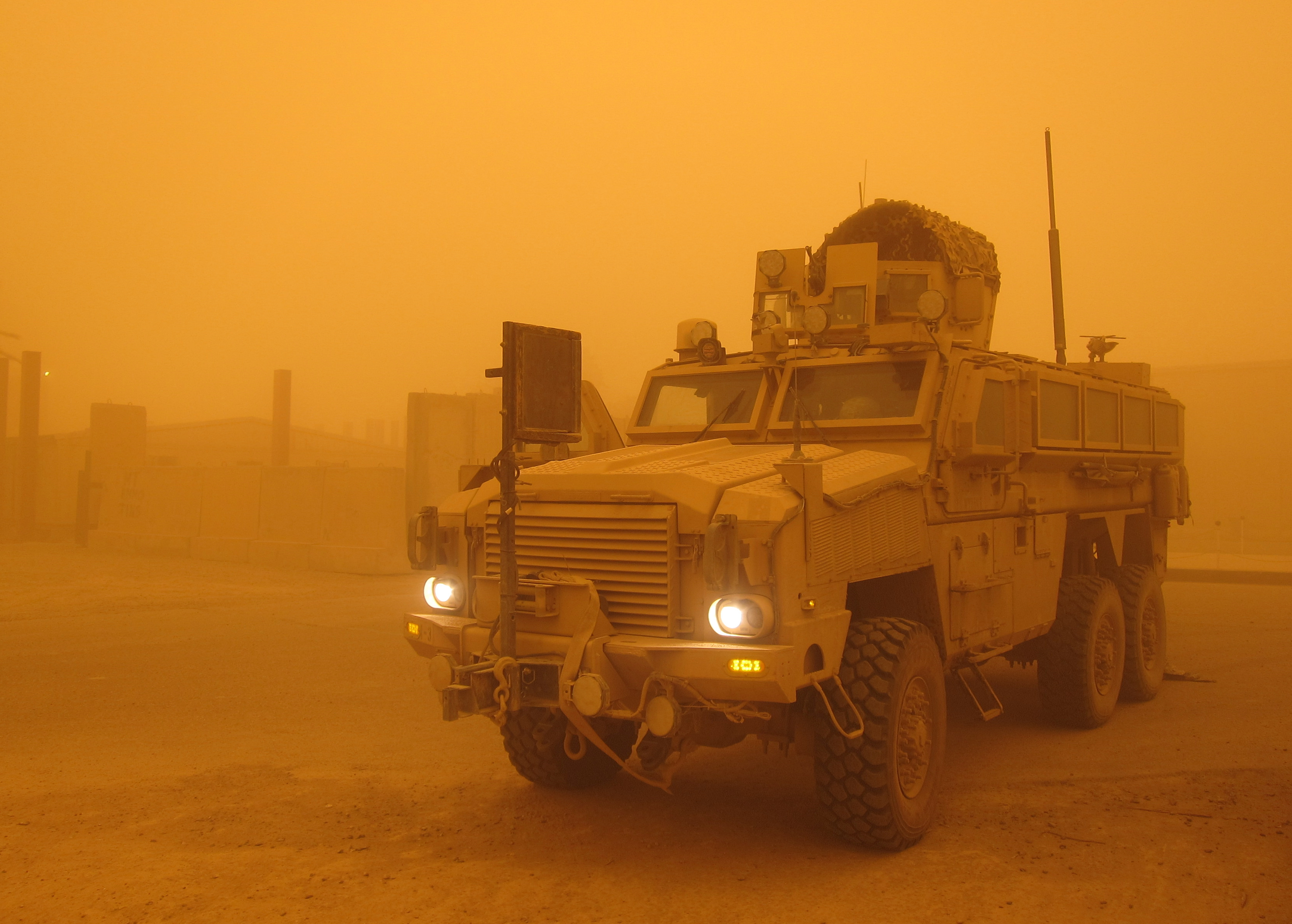 Soldiers from 1st “Rhino” Platoon, Bravo Company, 145th Brigade Support Battalion, 116th Cavalry Brigade Combat Team, Idaho National Guard, prepare Mine Resistant Ambush Protected vehicles for a run from Forward Operating Base Union III to Victory Base Complex during a dust storm. Rhino platoon conducts missions to transport personnel and cargo to and from Victory Base Complex and the International Zone. The Idaho National guardsmen, currently supporting Operation New Dawn as part of the 18th Airborne Corps’ Task Force Dragon, are based out of Post Falls and Lewiston, Idaho.